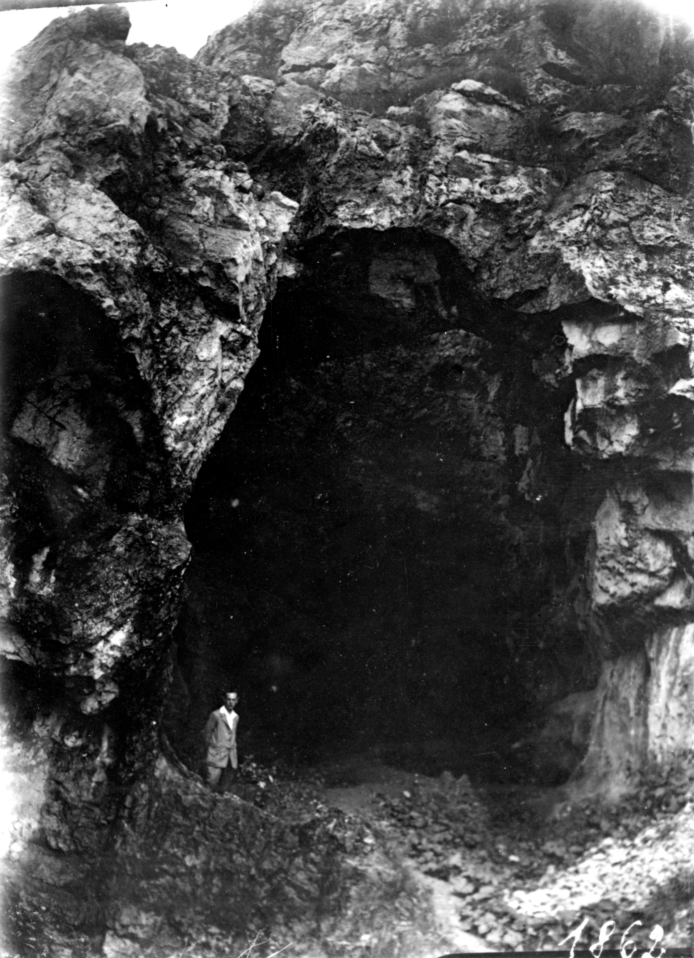 Jankovich Cave.